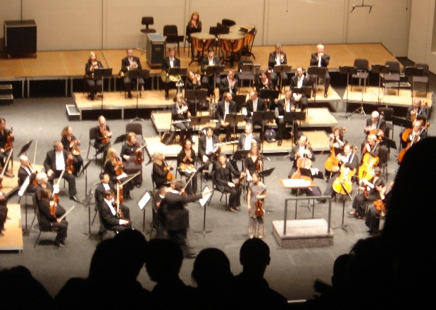 Standing ovation. San Antonio Symphony Orchestra, San Antonio, Texas, 2007. Conductor: Michael Christie. Violin: Midori Goto.